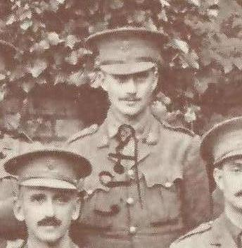 2nd Lieut. Vyvyan Pope photographed in August 1914 as the junior subaltern of the 1st Battalion, The North Staffordshire Regiment.